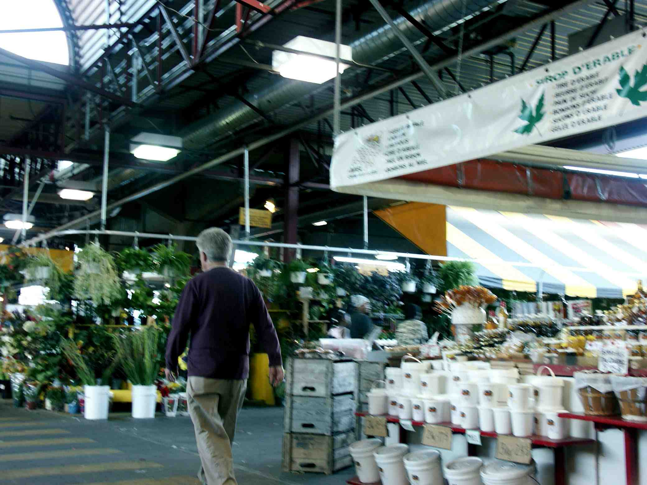 Another inside view of Marché Jean-Talon in Montréal, September 2005. Photo by User:Gene.arboit.